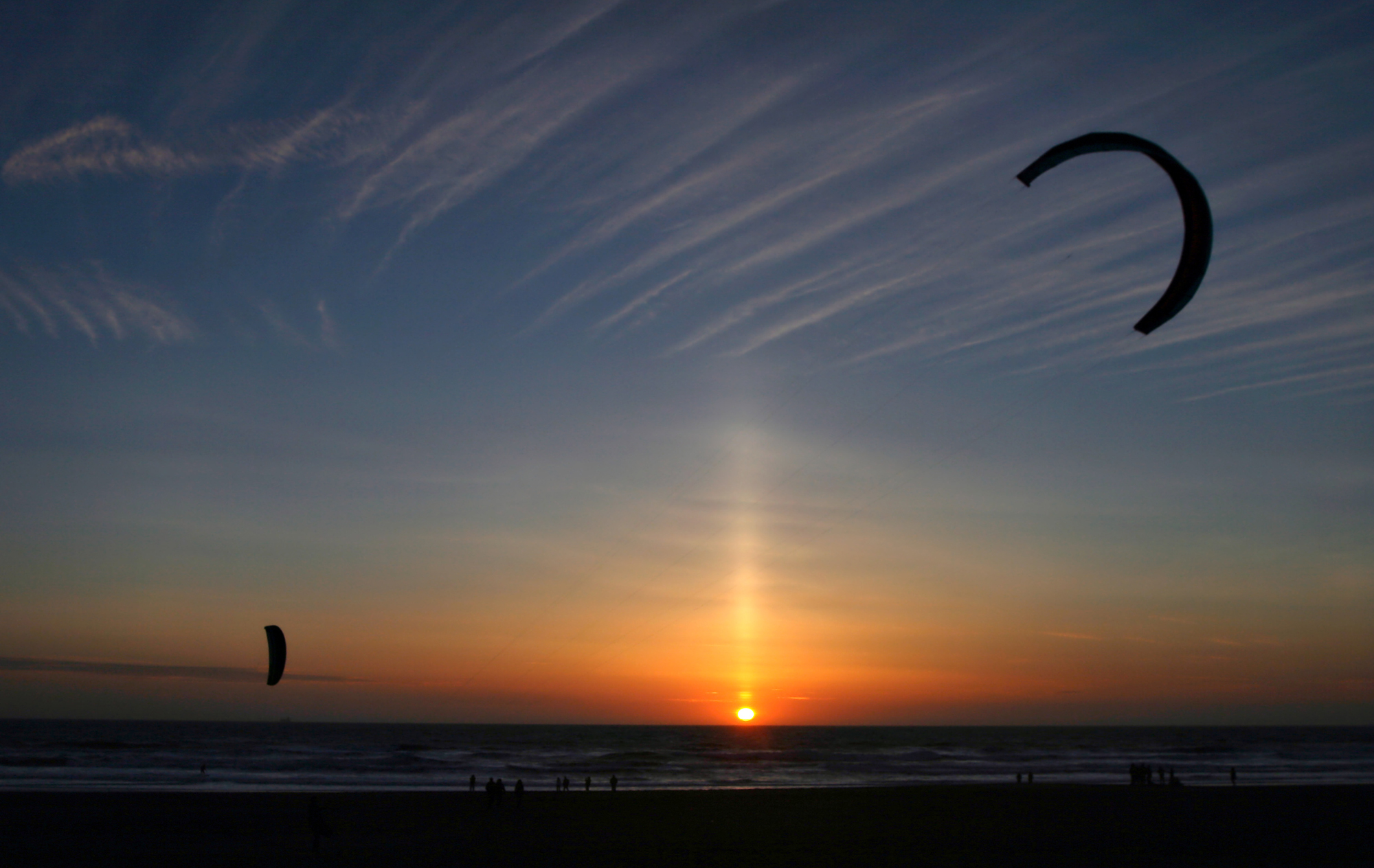 Sun pillar and kitesurfing in San Francisco.